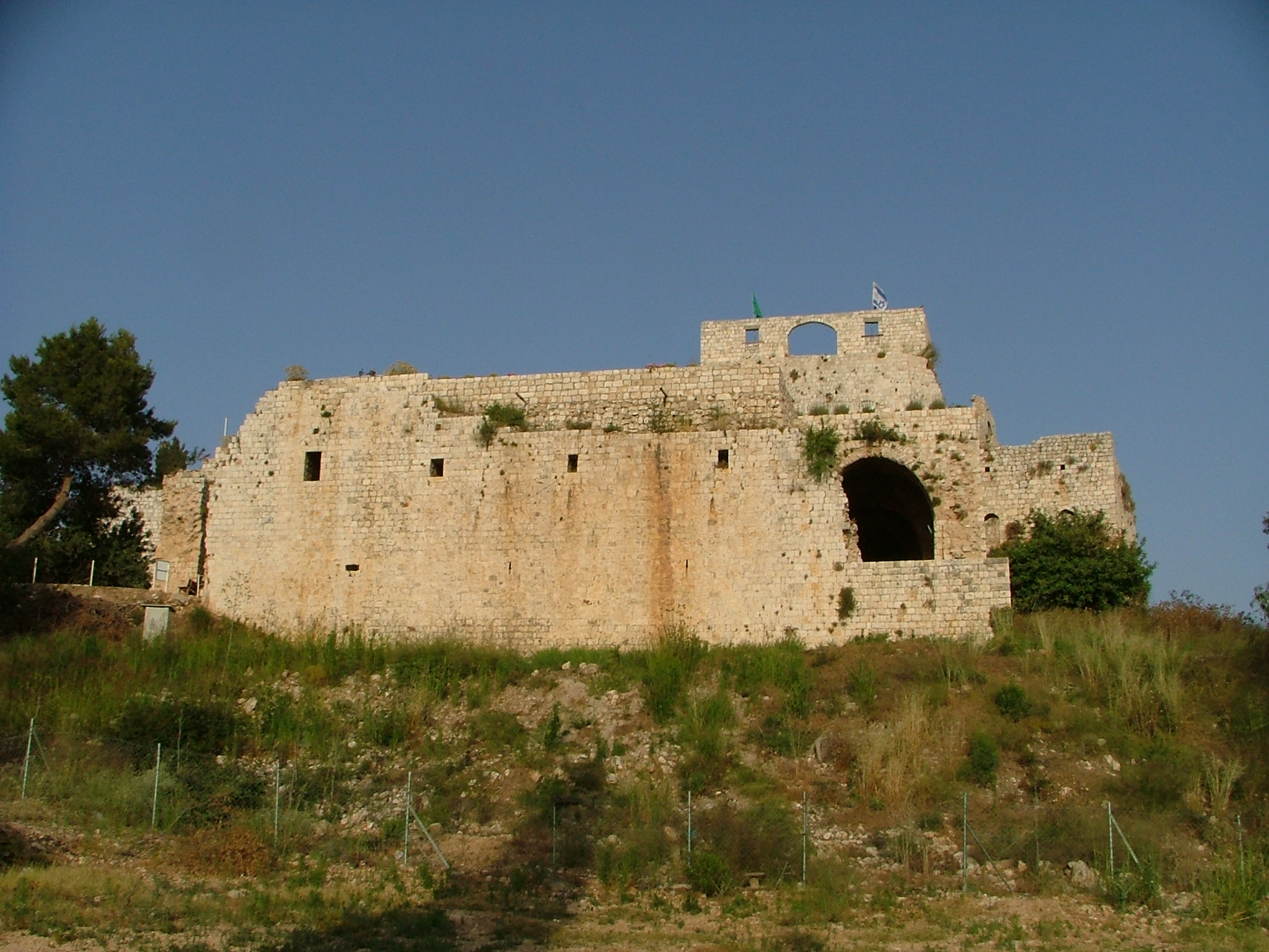 national park yehiam fortress